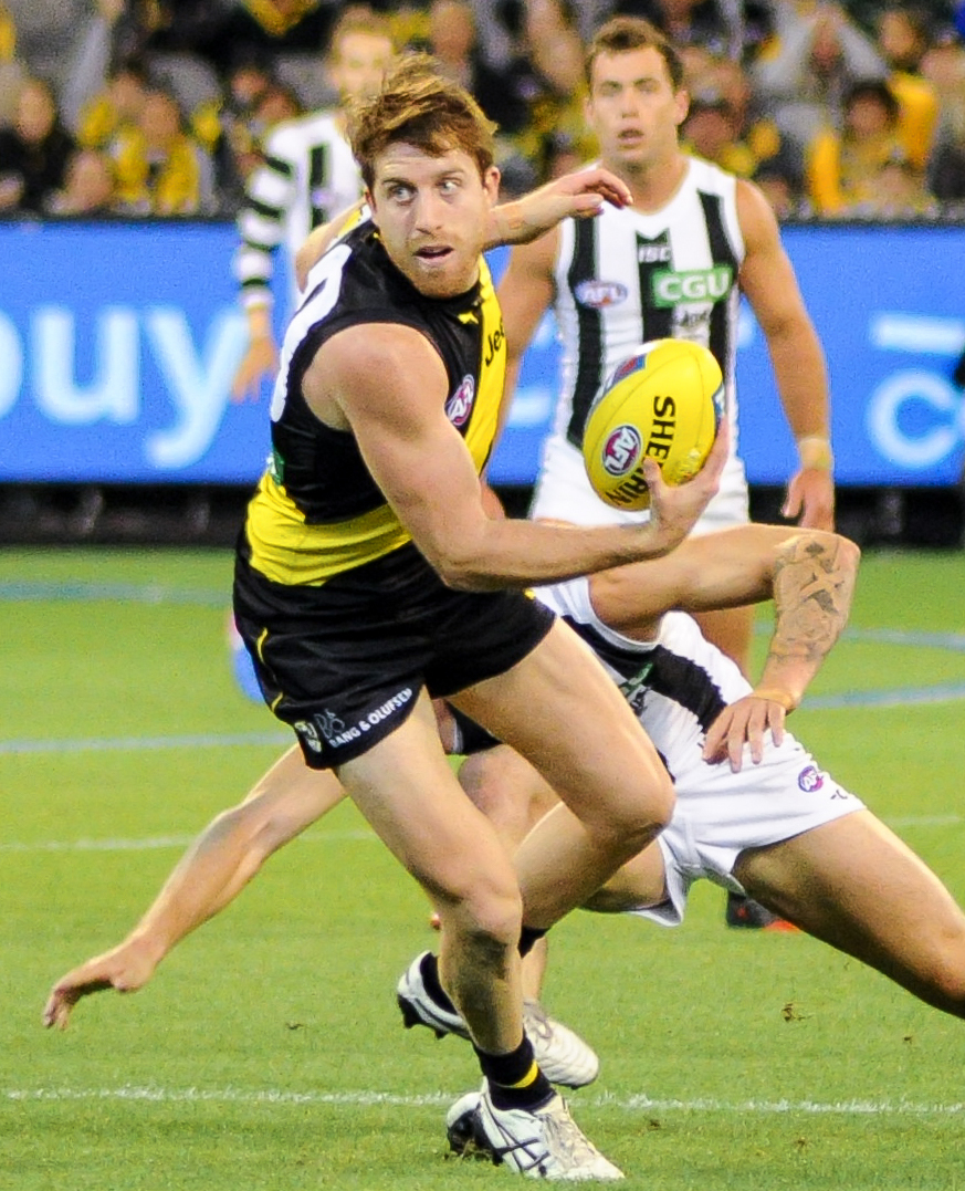 Reece Conca evading Jack Crisp tackle during the AFL round two match between Richmond and Collingwood on 30 March 2017 at the Melbourne Cricket Ground in Melbourne, Victoria.